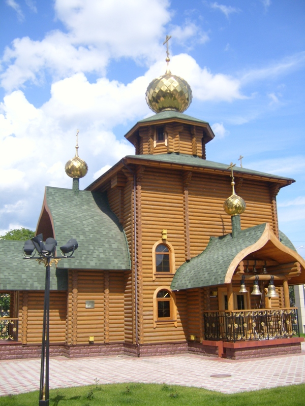 Church of Prince Volodymyr